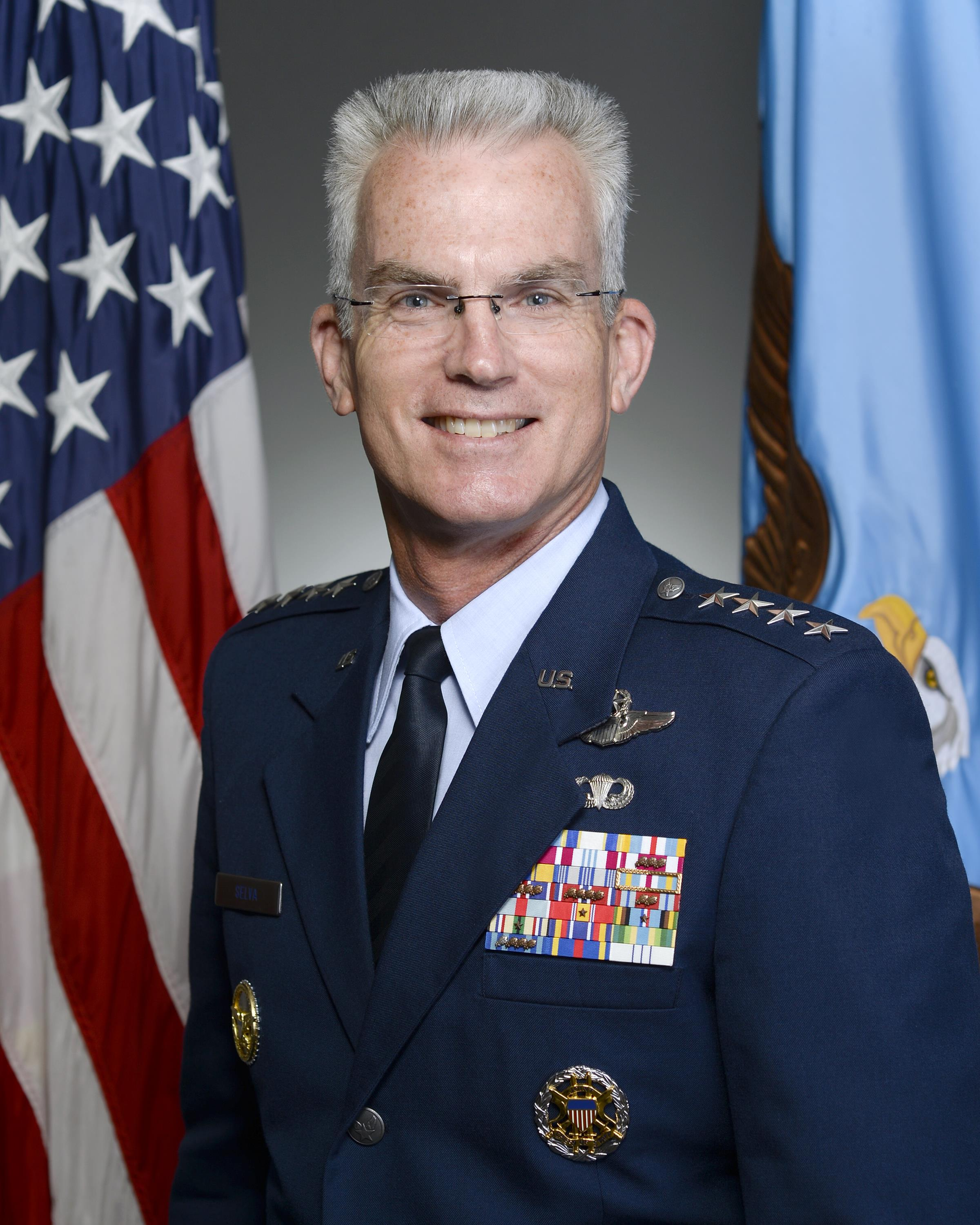 Gen. Paul Selva, photographed in the Pentagon, July 31, 2015, in preparation for his taking the position of Vice Chairman, Joint Chiefs of Staff. (U.S. Air Force photo/Scott M. Ash)